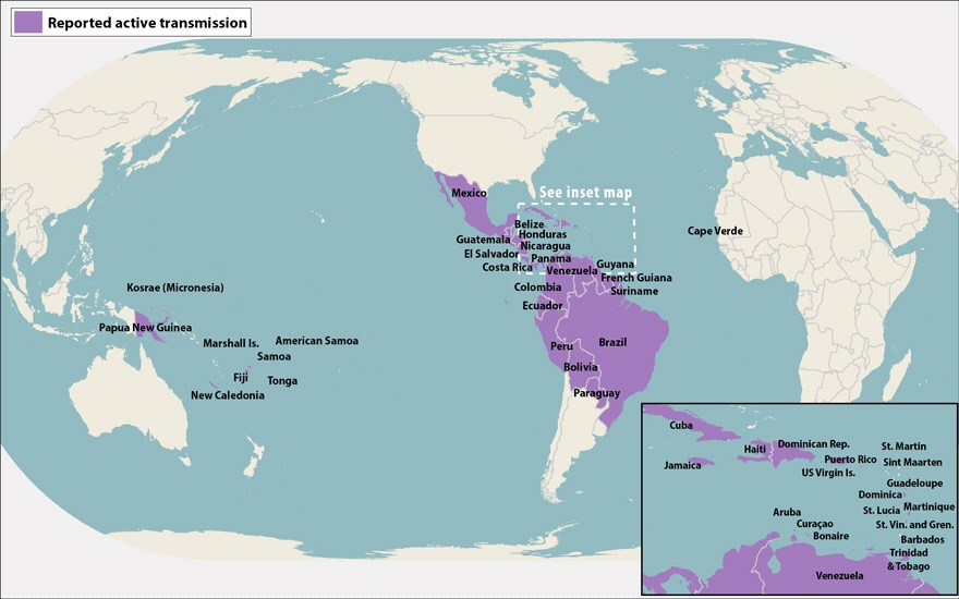 All Countries and Territories with Active Zika Virus Transmission, as of 5 May 2016